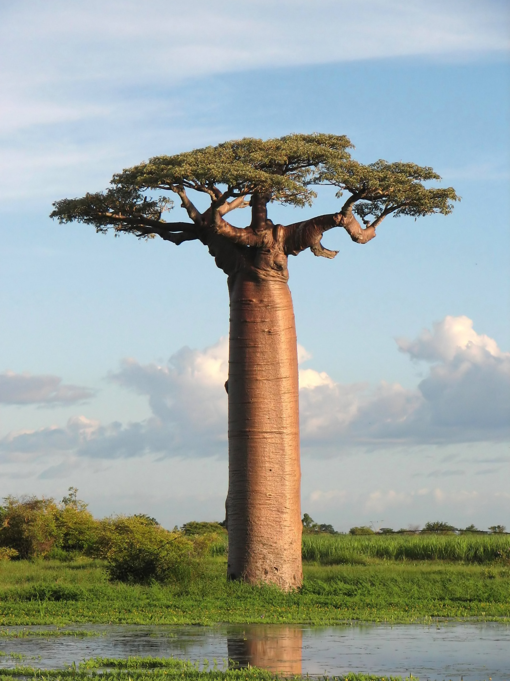 Grandidier's Baobab, picture taken near Morondava, Madagascar.